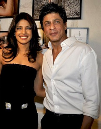 Priyanka Chopra, Shahrukh Khan snapped during the 'Dabboo Ratnani's 2011 calendar launch'